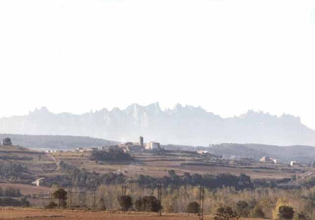 Artés and Montserrat at the back.